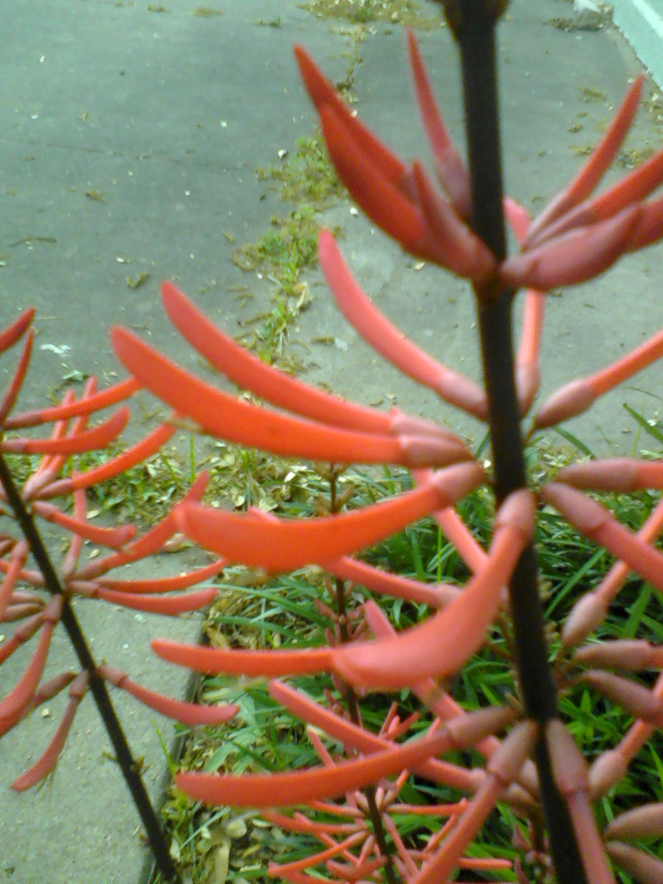 Colorines, machetitos machete Erythrina americana plant from Texas